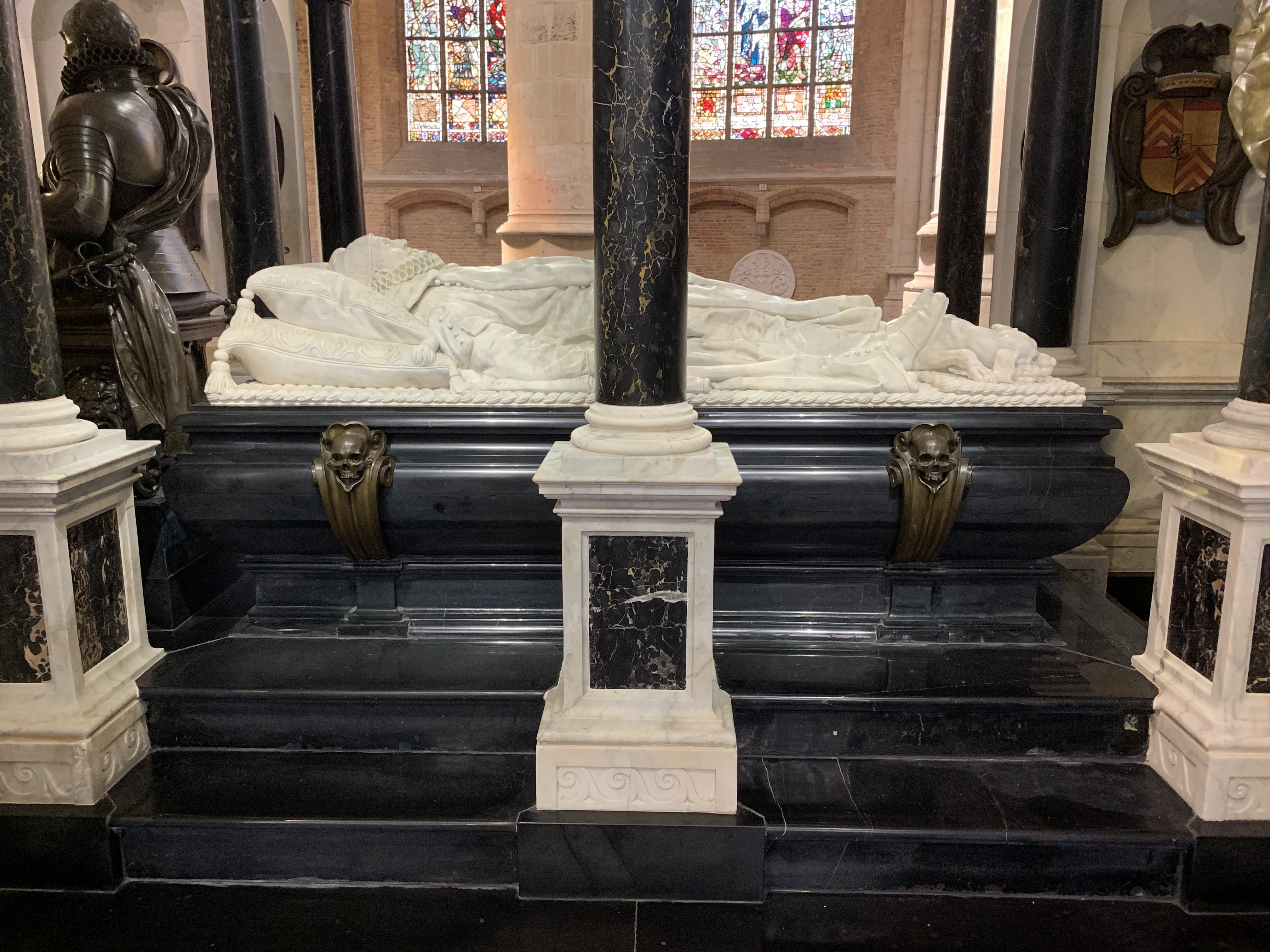 Tomb of William of Orange, William the Silent